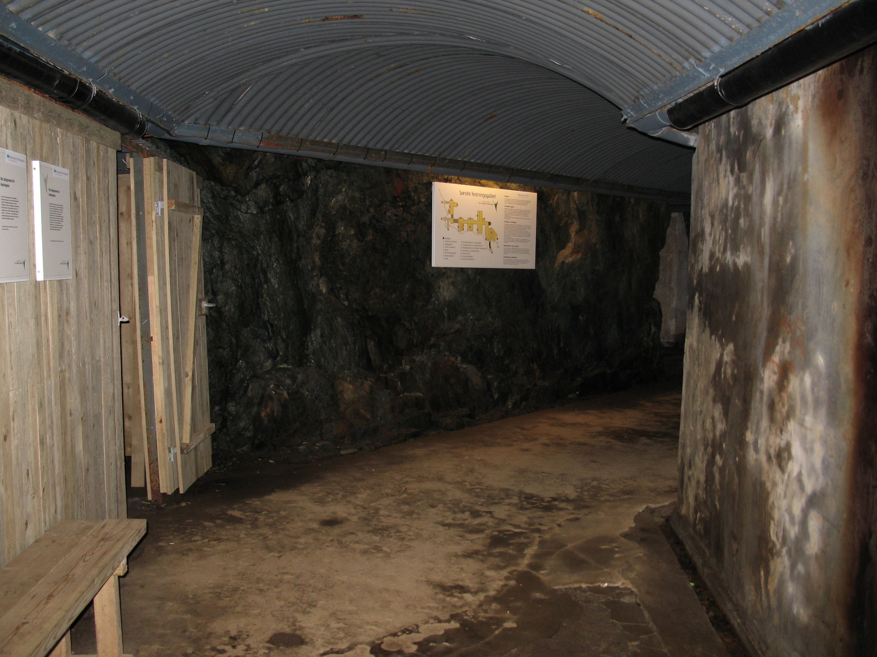 Inside the tunnel of the South Gallery, Verdal fortresses, Norway.